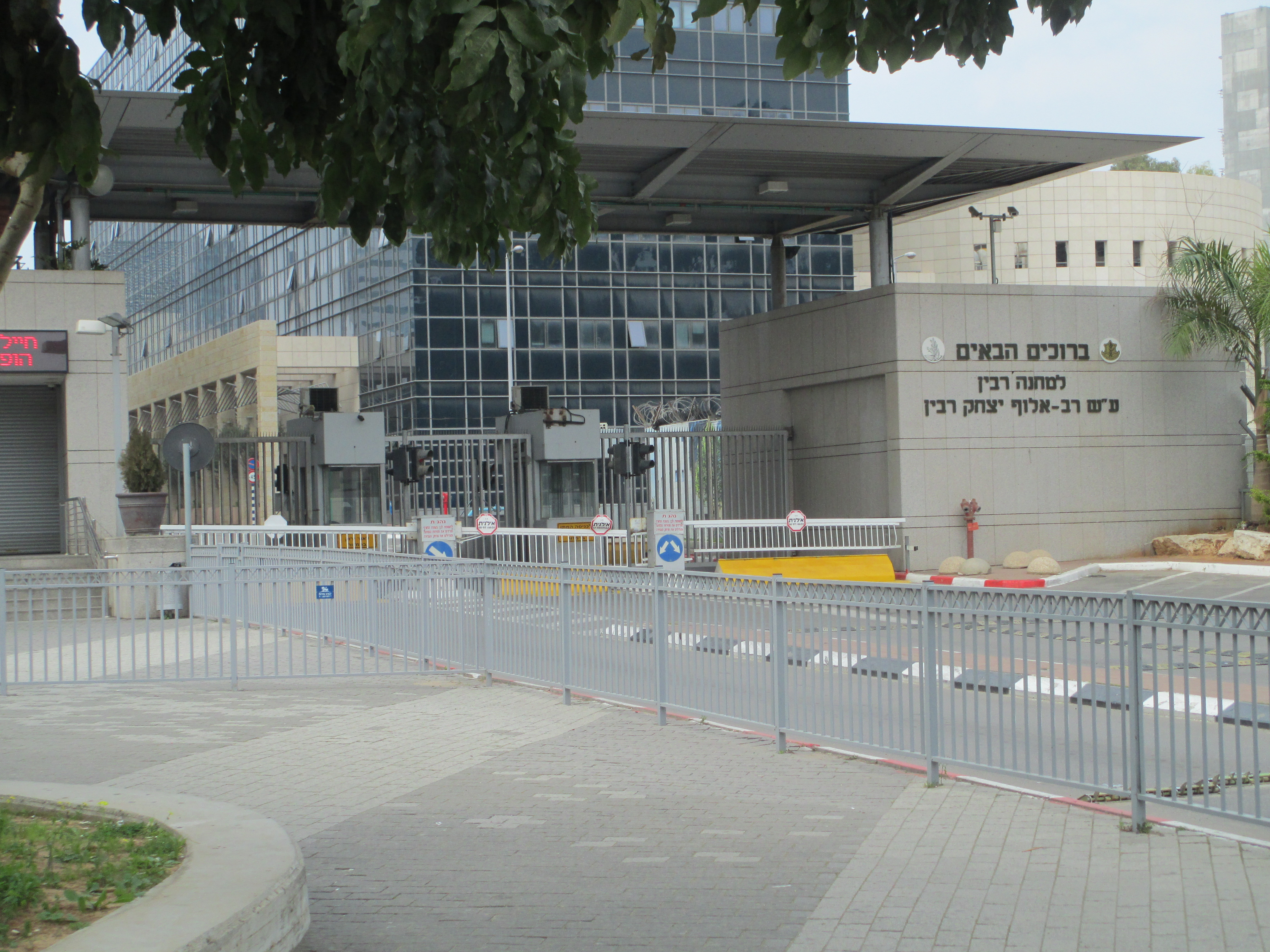 Entrance to Rabin Campus in Tel Aviv